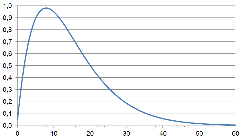 Contrast Sensitivity Function (CSF) against angular frequency in cycles per degree